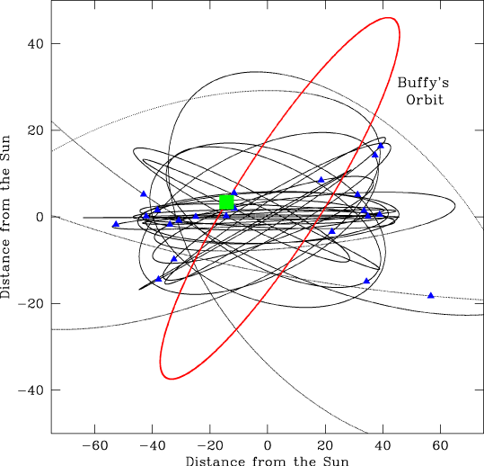 This is a diagram highlighting the orbit of the trans-Neptunian object 2004 XR190, temporarily named Buffy. The difficult-to-explain 47-degree inclination of Buffy's orbit can clearly be seen here. The blue triangles are Kuiper-belt objects and scattered-disc objects shown with their orbits. Source: [1]. Released under the terms of the GFDL to Jasongetsdown by Lynne Allen, leader of the team who discovered this object.